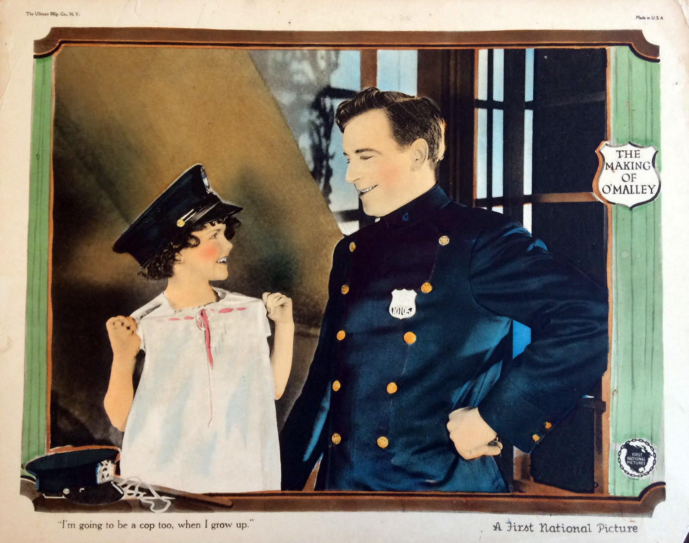 Lobby card for the film The Making of O'Malley (1925).